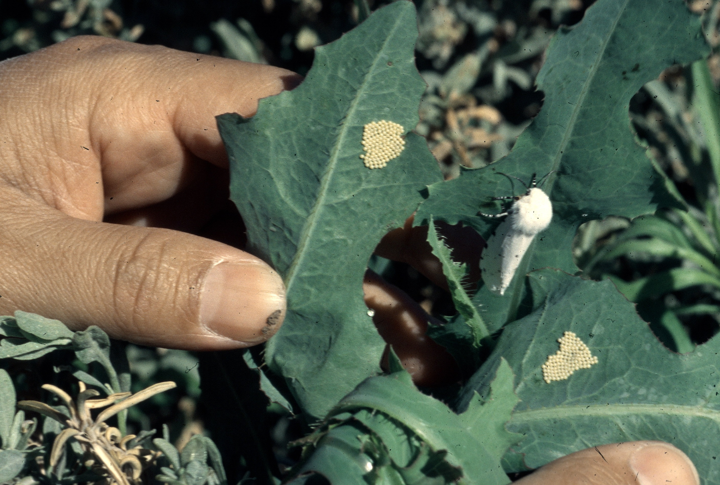 Salt Marsh Moth (Estigmene acrea) adult and egg masses.